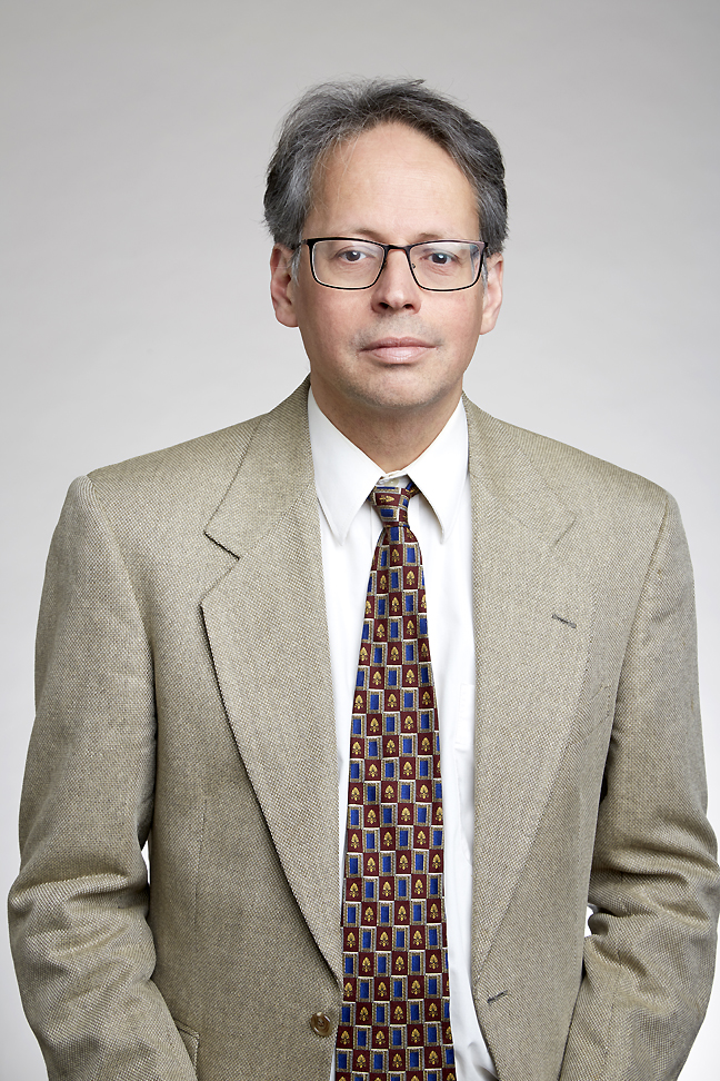 Mark William Gross FRS (30 November 1965) is an American mathematician, specializing in differential geometry, algebraic geometry, and mirror symmetry. Attribution: The Royal Society